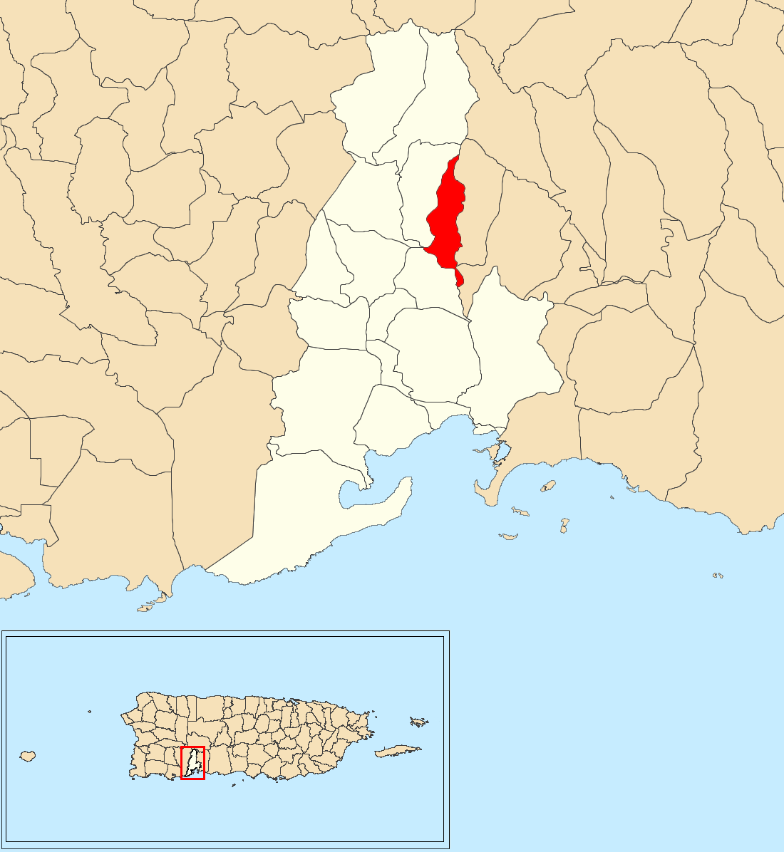 Barrero, Guayanilla, Puerto Rico locator map